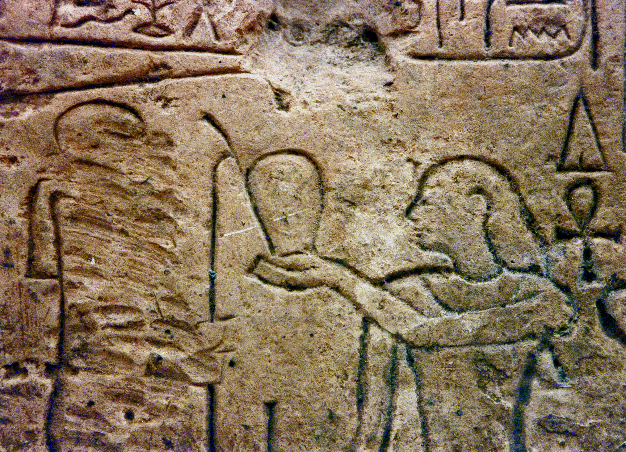 Main scene of the stele of Nebsumenu depicting the late 13th dynasty king Seheqenre Sankhptahi giving (oil ?) "ms.t." to the statue of the god Ptah in a chapel. Dimensions: Height 74.2 m, width 52.7. Conservation: Madrid. National Archaeological Museum. (It comes from the collection Várez FISA)